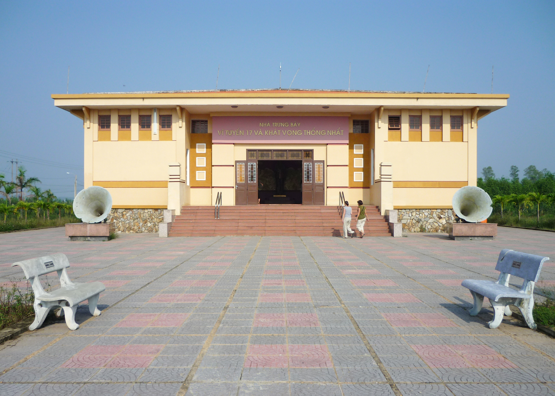 Museum of the 17th Parallel and Aspiration of Unification, Quang Tri Province, Viet Nam.